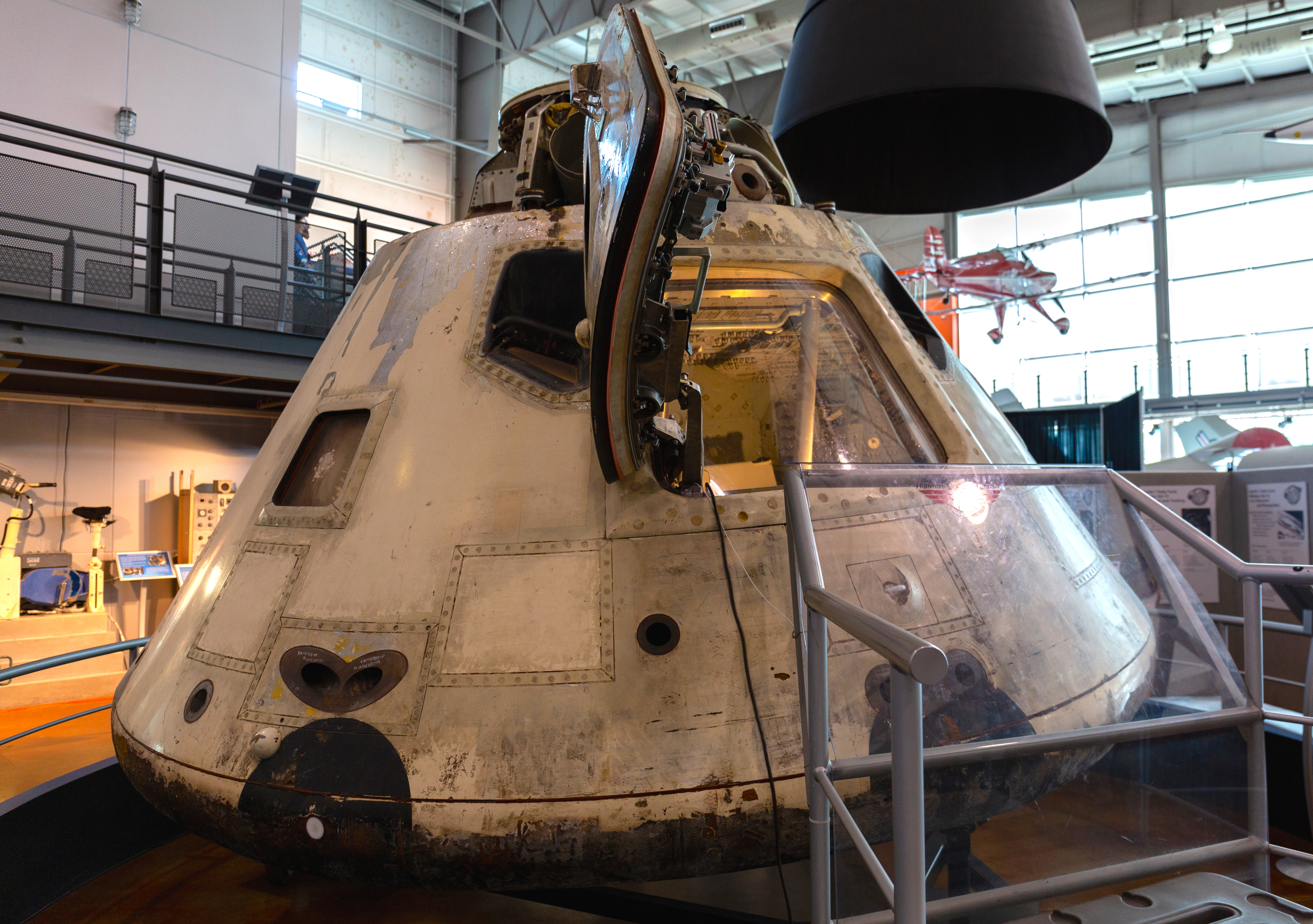 The Apollo 7 Command Module on display at the Frontiers of Flight Museum in Dallas, Texas.